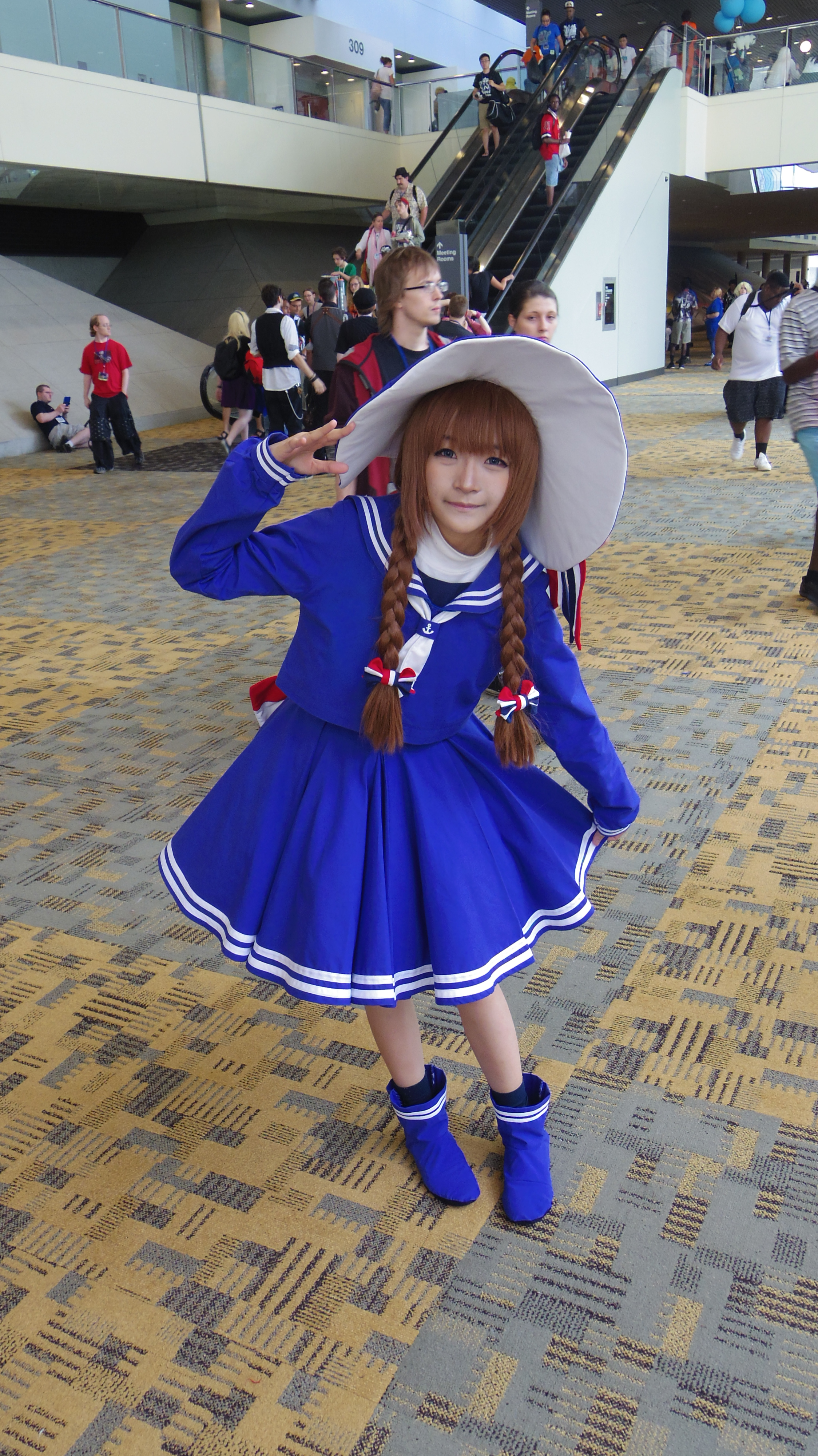 Wadanohara from Wadanohara and the Great Blue Sea. She and two other who cosplayed from the indie game were present at all three days, but I did not ask who she was cosplaying until the last day, thinking it was someone else. Ah well.